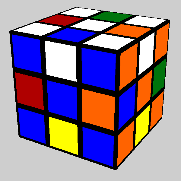 Picture of the Rubik’s Cube superflip Pattern that needs min. 20 moves (quater and half turns) to be solved.